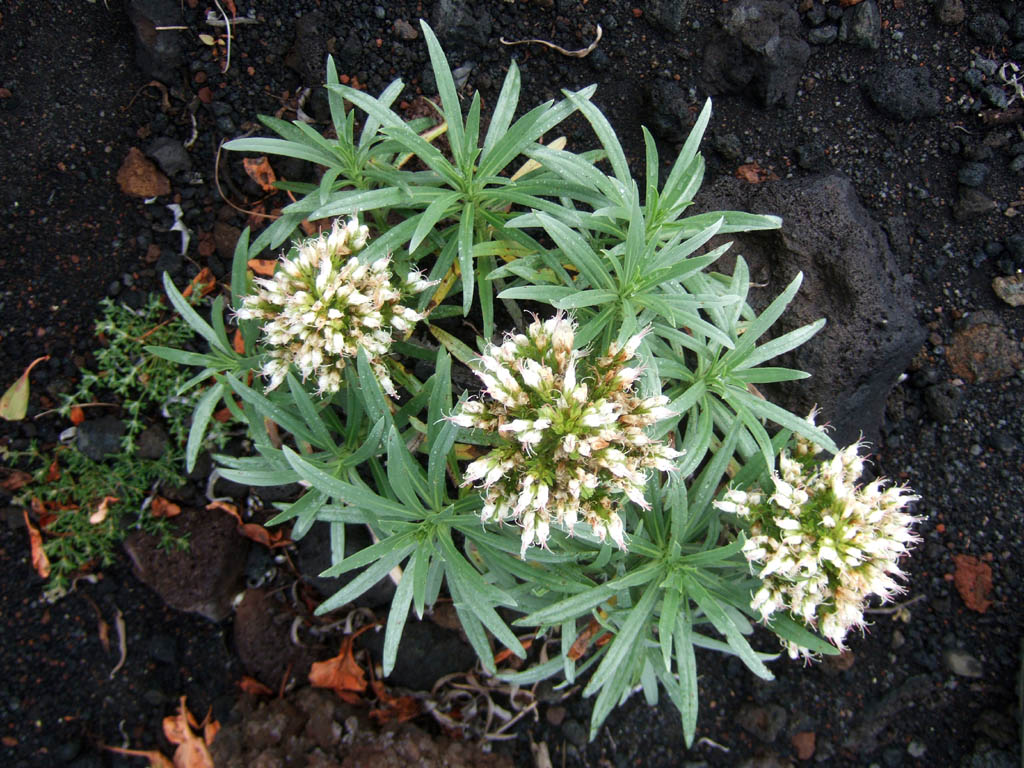 Echium brevirame on lava field